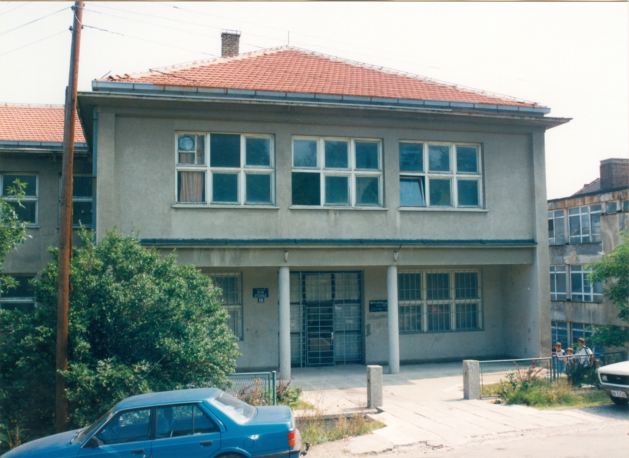 Historical Archive of Negotin, Department in Bor Srpski (latinica): Istorijski arhiv Negotin, Odeljenje u Boru